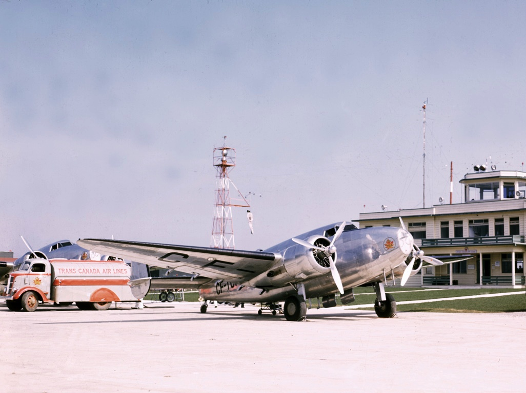 TCA (Trans-Canada Airlines) Lockheed Electra 14H2s at Malton Airport C1939